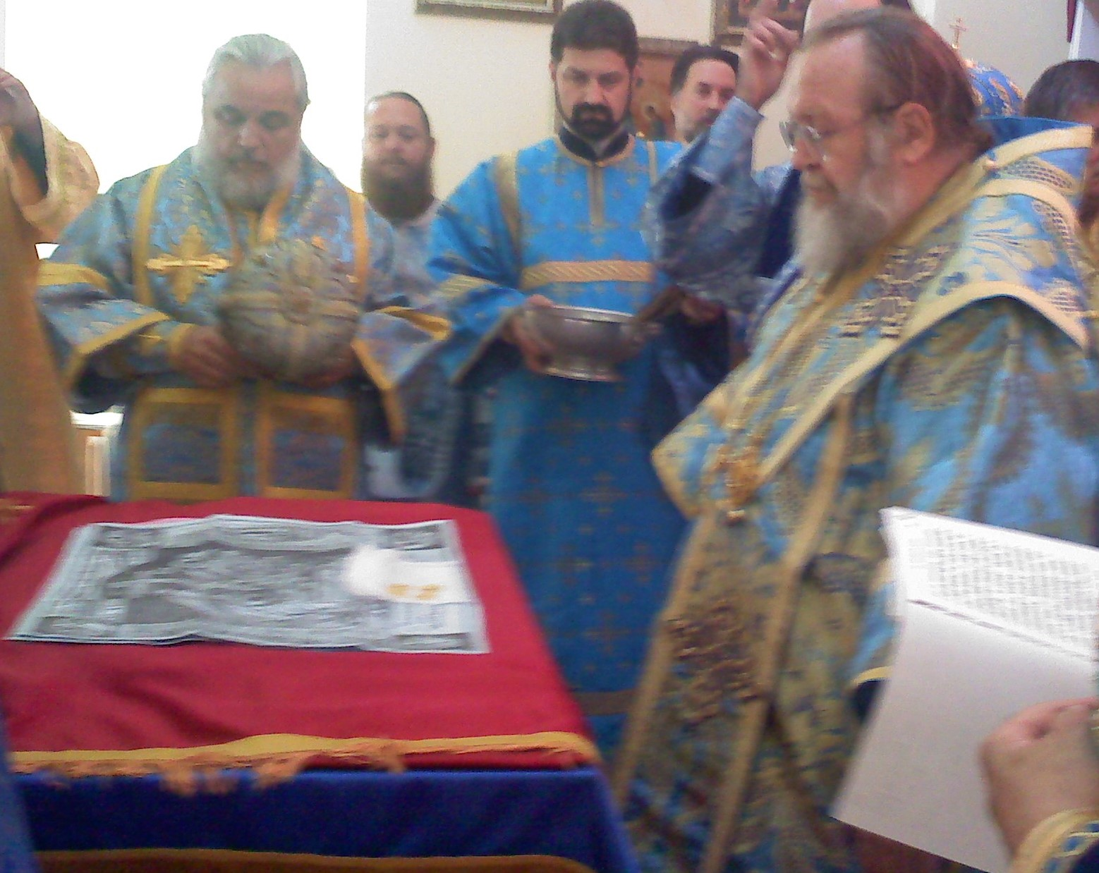 At the beginning of the consecration of an antimension, the bishop stands before the holy table on which is placed the unconsecrated antimension with the the relics lying on it.